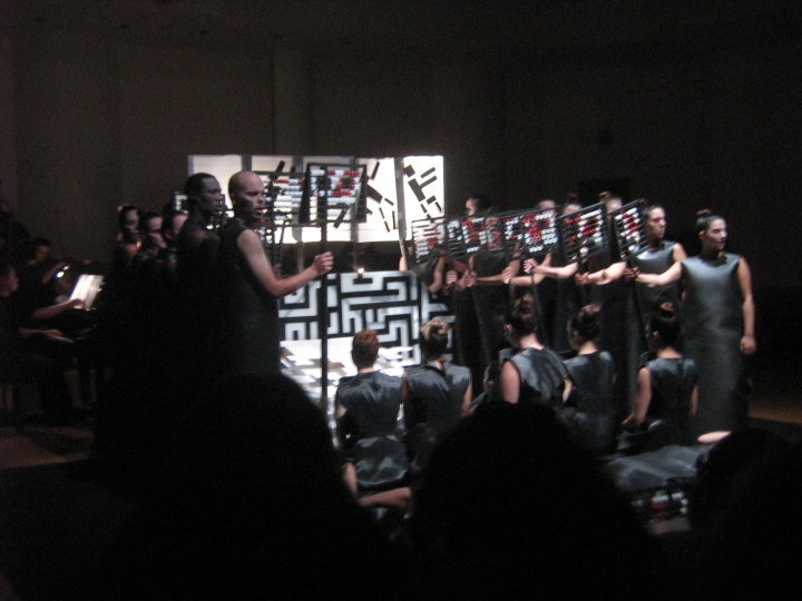 Der Jasager opera performed by the students of the Buchmann-Mehta School of Music in Tel-Aviv University